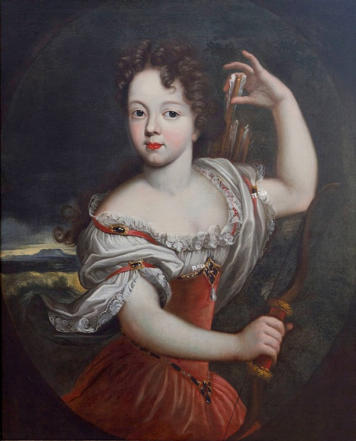 Portrait of Elisabeth Charlotte d'Orleans (1676-1744) as Diana.